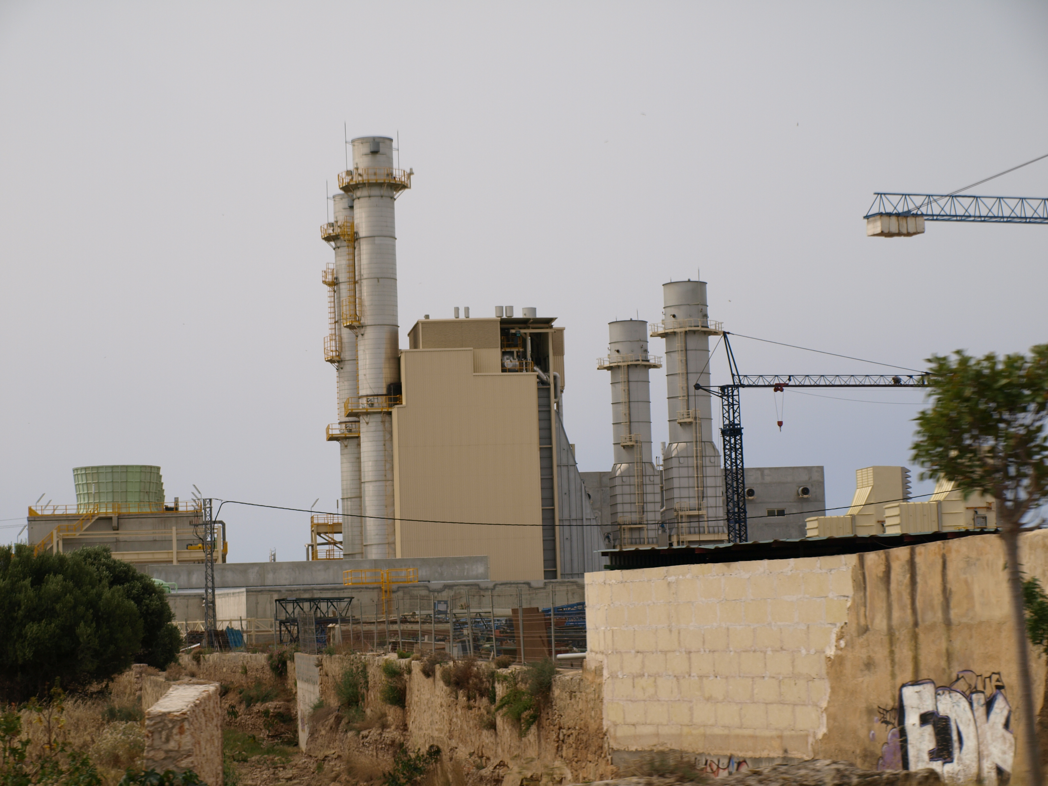 Cas Tresorer combinded cycle gas power plant Place Lloc/Place: Cas Tresorer Palma